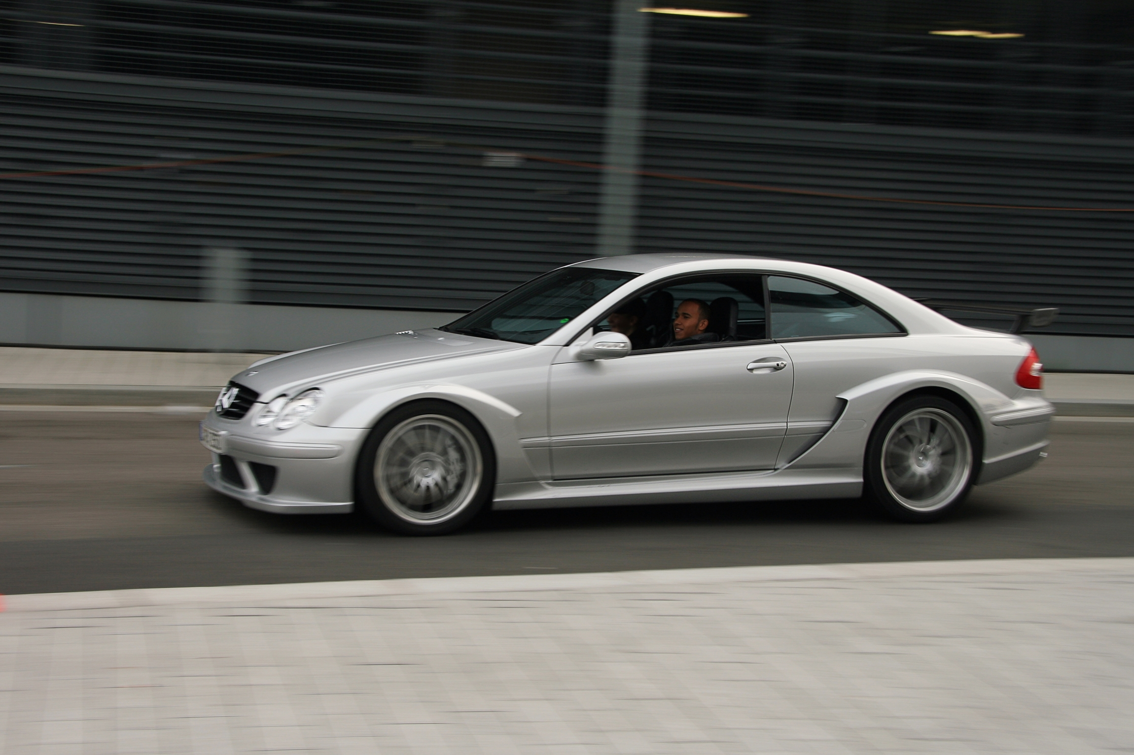 Mercedes CLK DTM (C209) / Lewis Hamilton (driver)